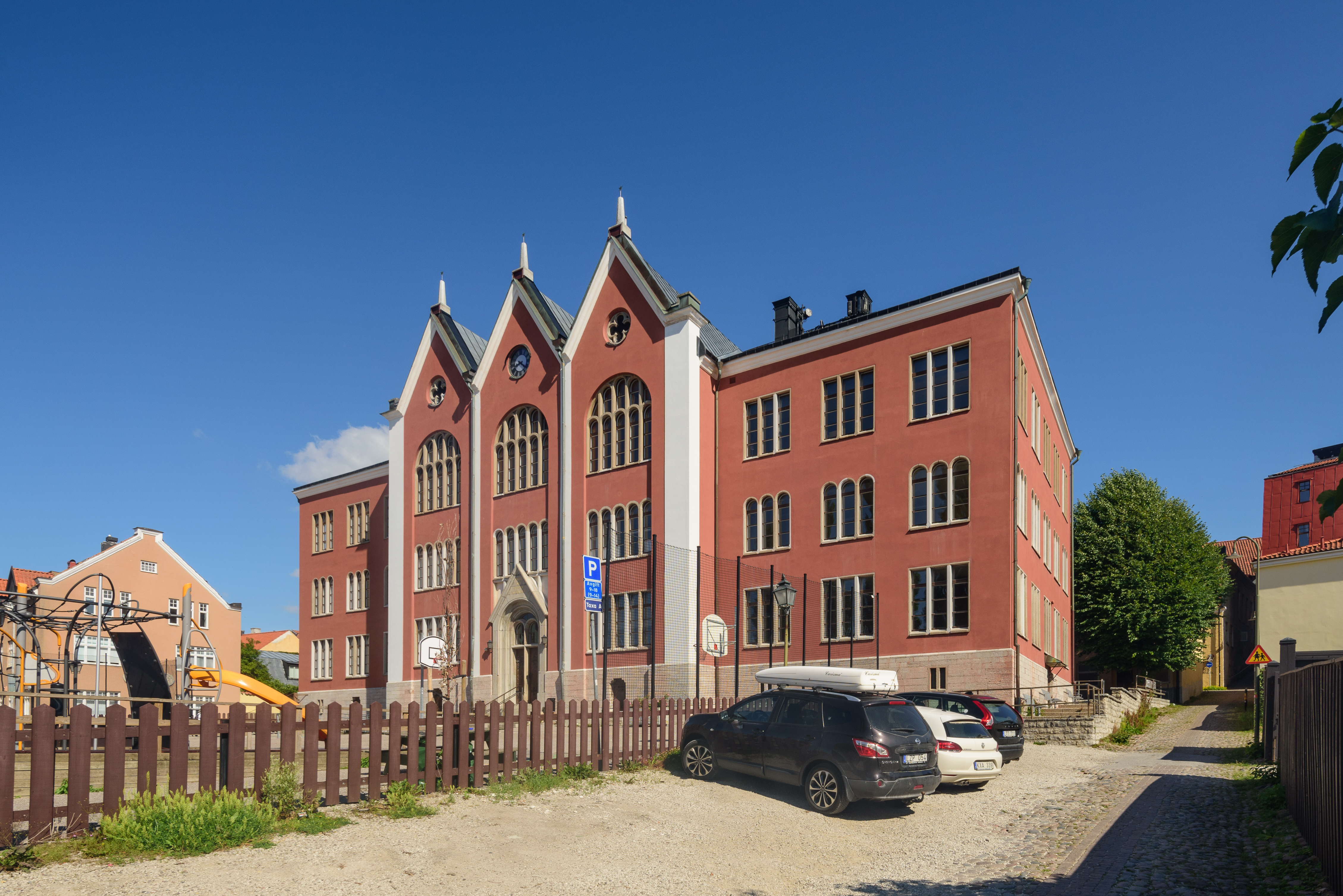 Sankt Hans skola is a historic school in Visby, Sweden.